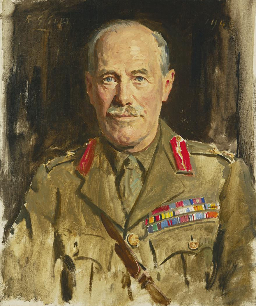 Major-general William Norman Herbert Cb, Cmg, Dso and Bar image: a head and shoulder portrait of Major-General W N Herbert in uniform.